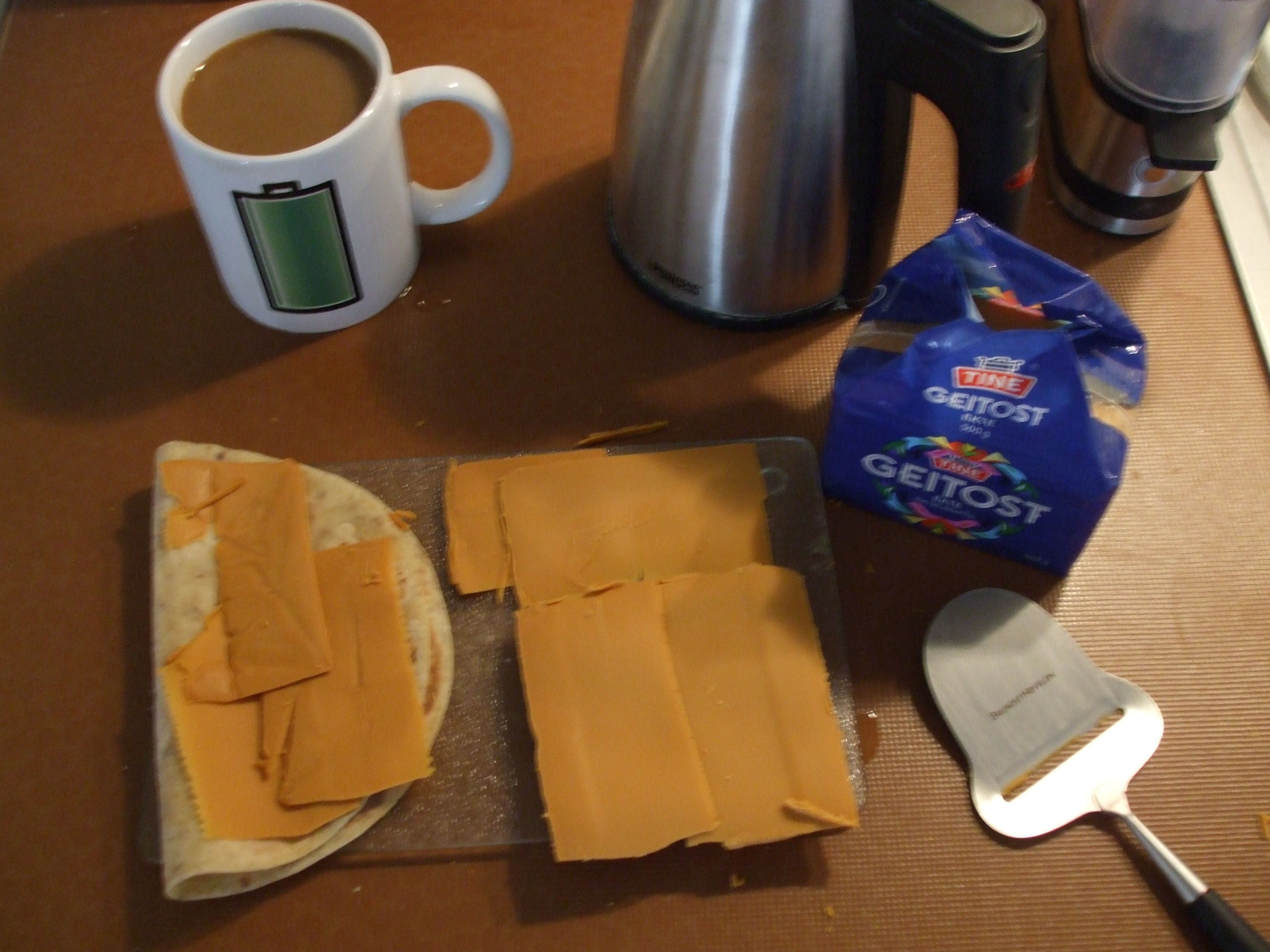 Norwegian breakfast with potato cake ("lompe") and goat cheese ("geitost")